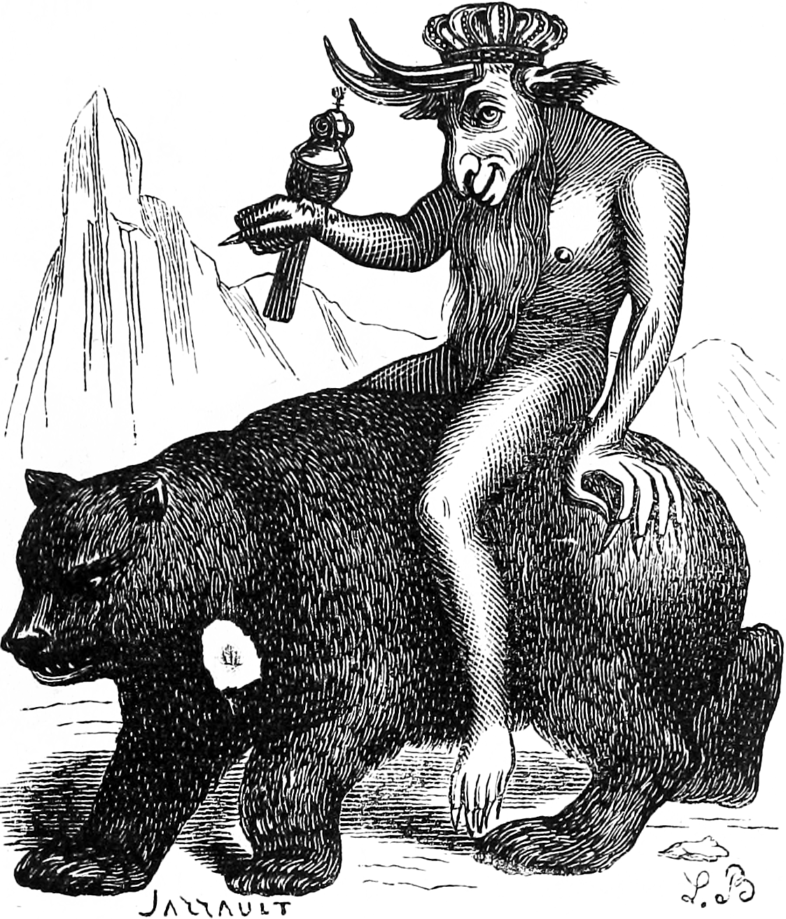 Balan, an illustration from the "Dictionnaire Infernal" by Jacques Collin de Plancy.